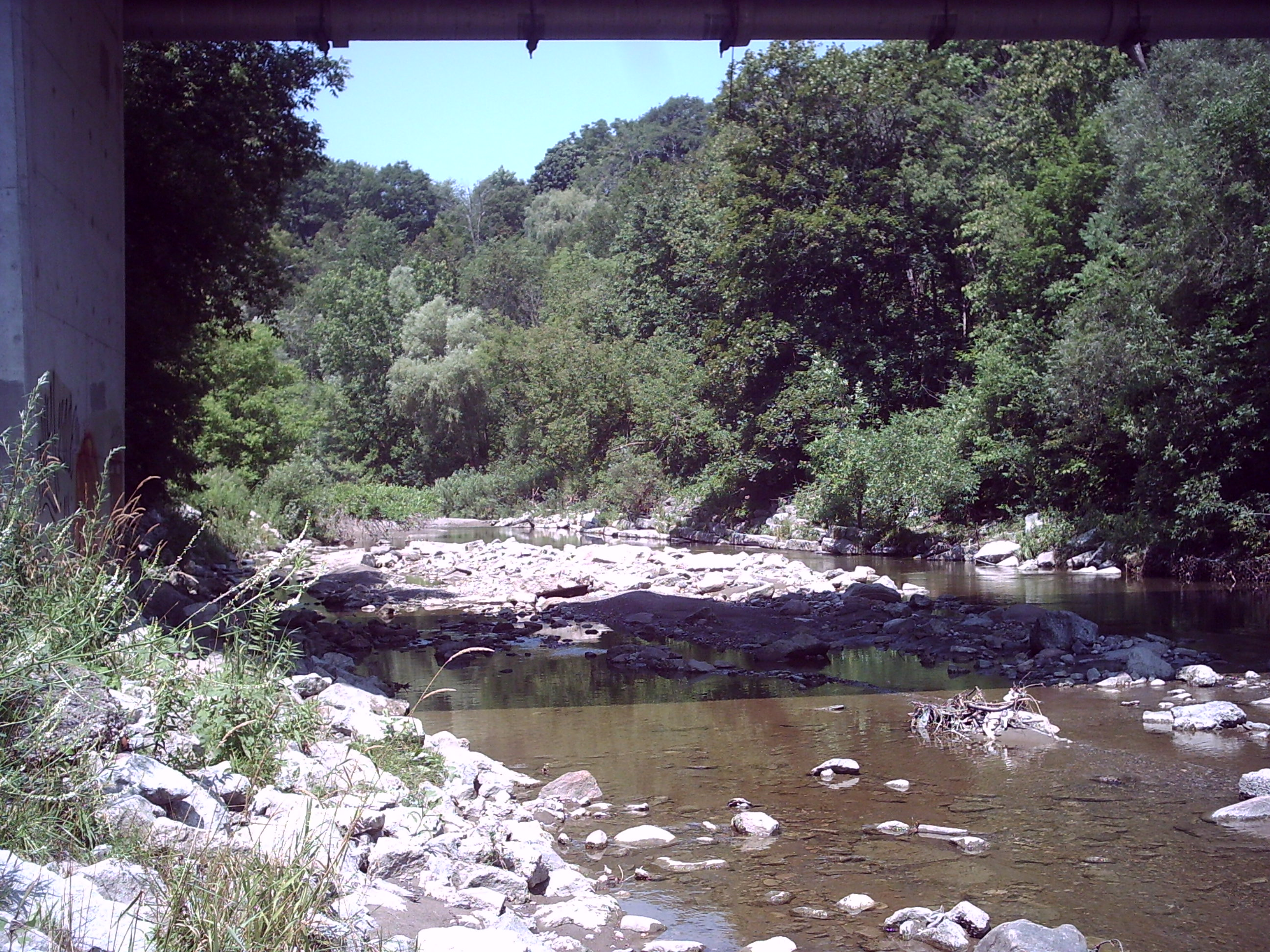 Highland Creek at Old Kingston Road, Scarborough.